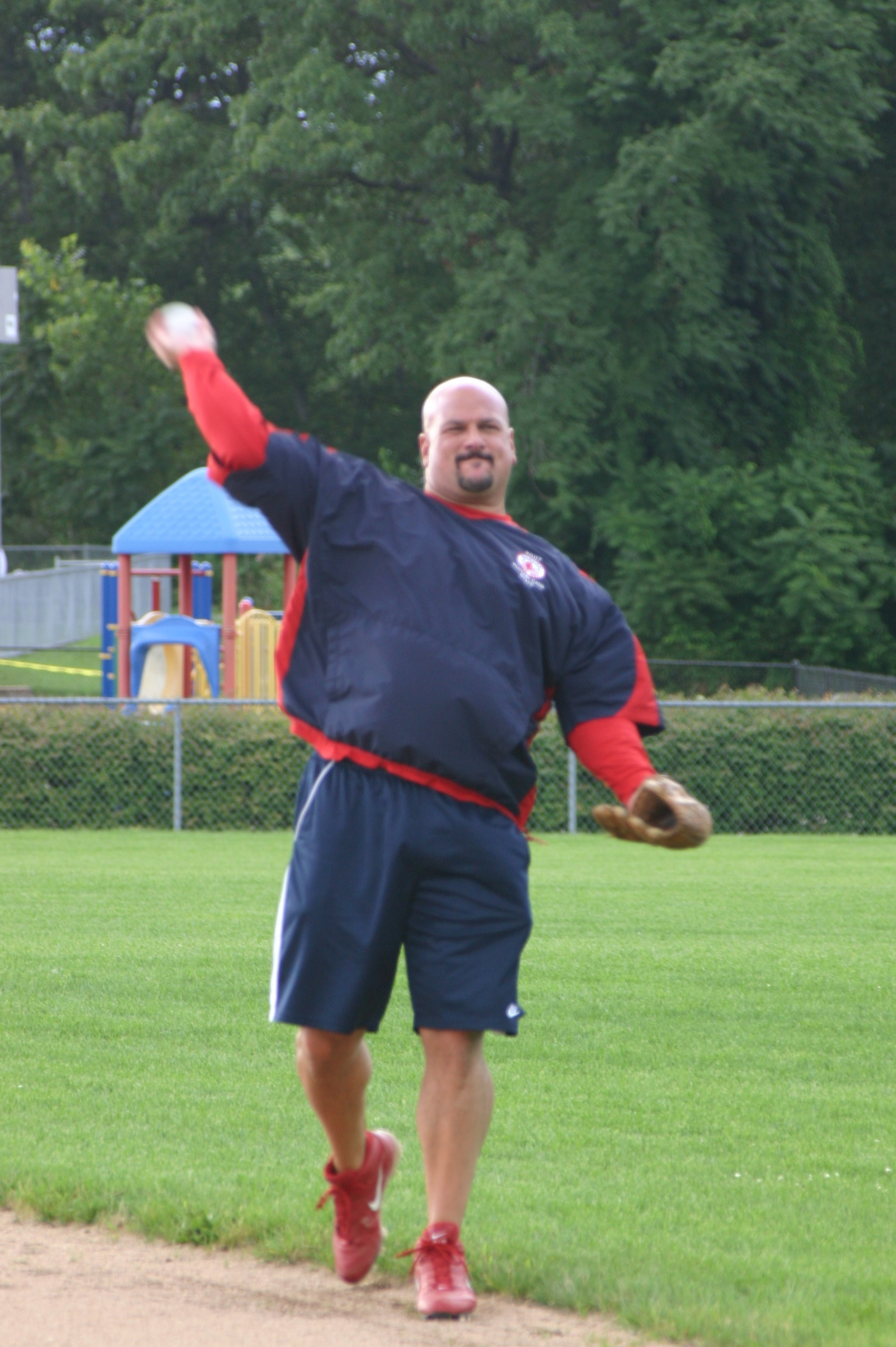 Photgrapher: Fred Harrington Taken: Holliston, MA- Aug3, 2008 03:20, 5 August 2008 . . PhreddieH3 . . 1,887×2,834 (1.34 MB)